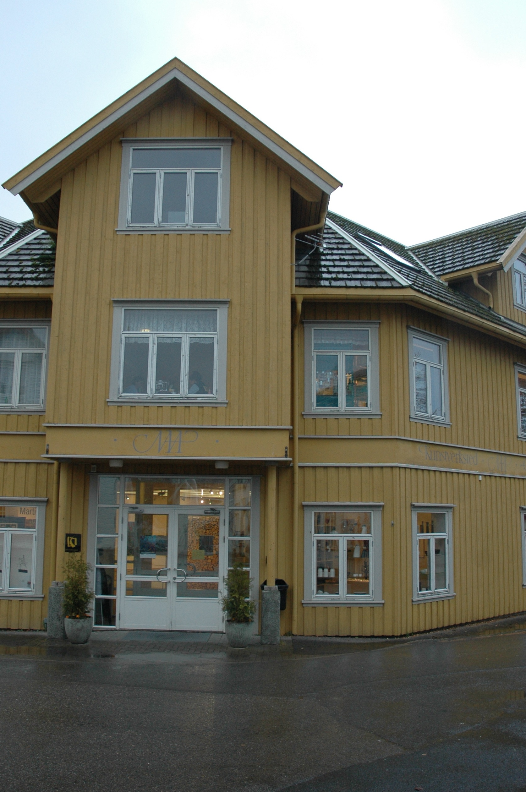 Nils Aas Kunstverksted fra Nergata mot Muustrøparken